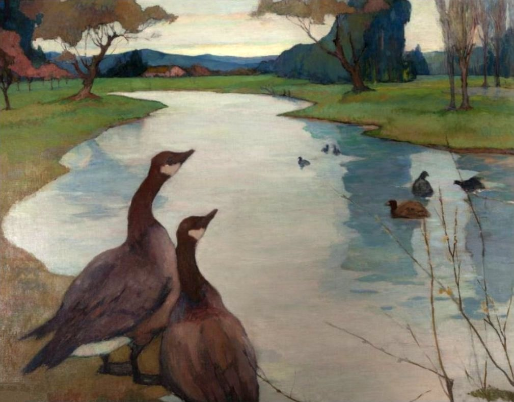 Decoration: Wild Geese by Rowena Meeks Abdy, c. 1925, oil on canvas, 39.5 in. x 45.5 in., Mills College Art Museum